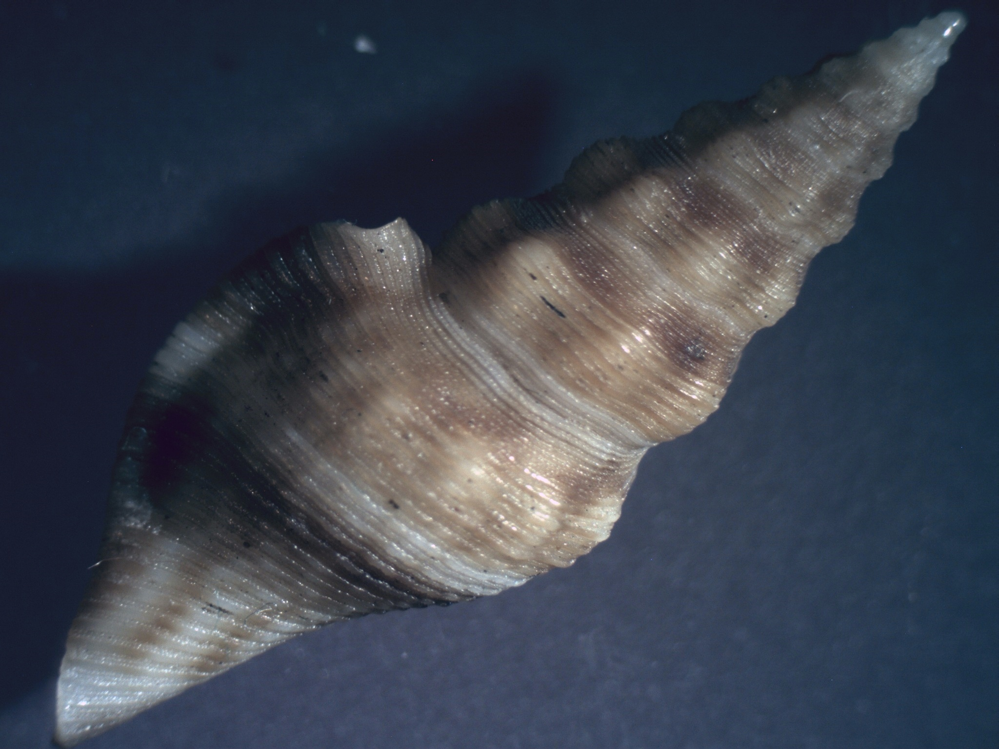 Glyphostoma rostrata Sysoev & Bouchet, 2001 ; the Philippines